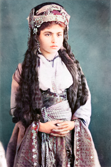 Daughter of an Arabian Chief in Syria; woman in traditional costume with jewelry headdress.